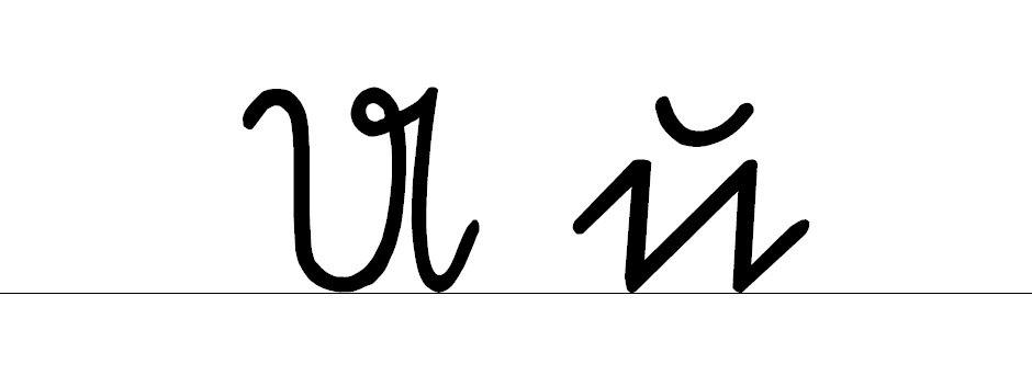 Letters U and u of Sütterlin script.